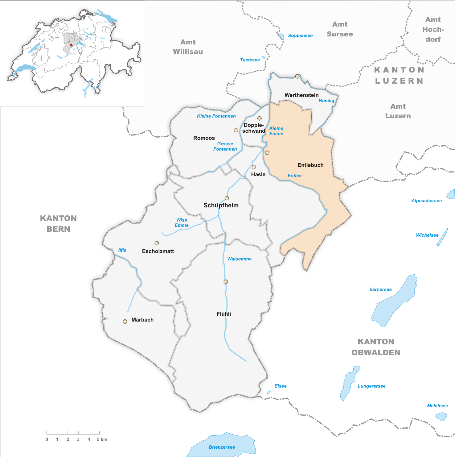 Municipality Entlebuch